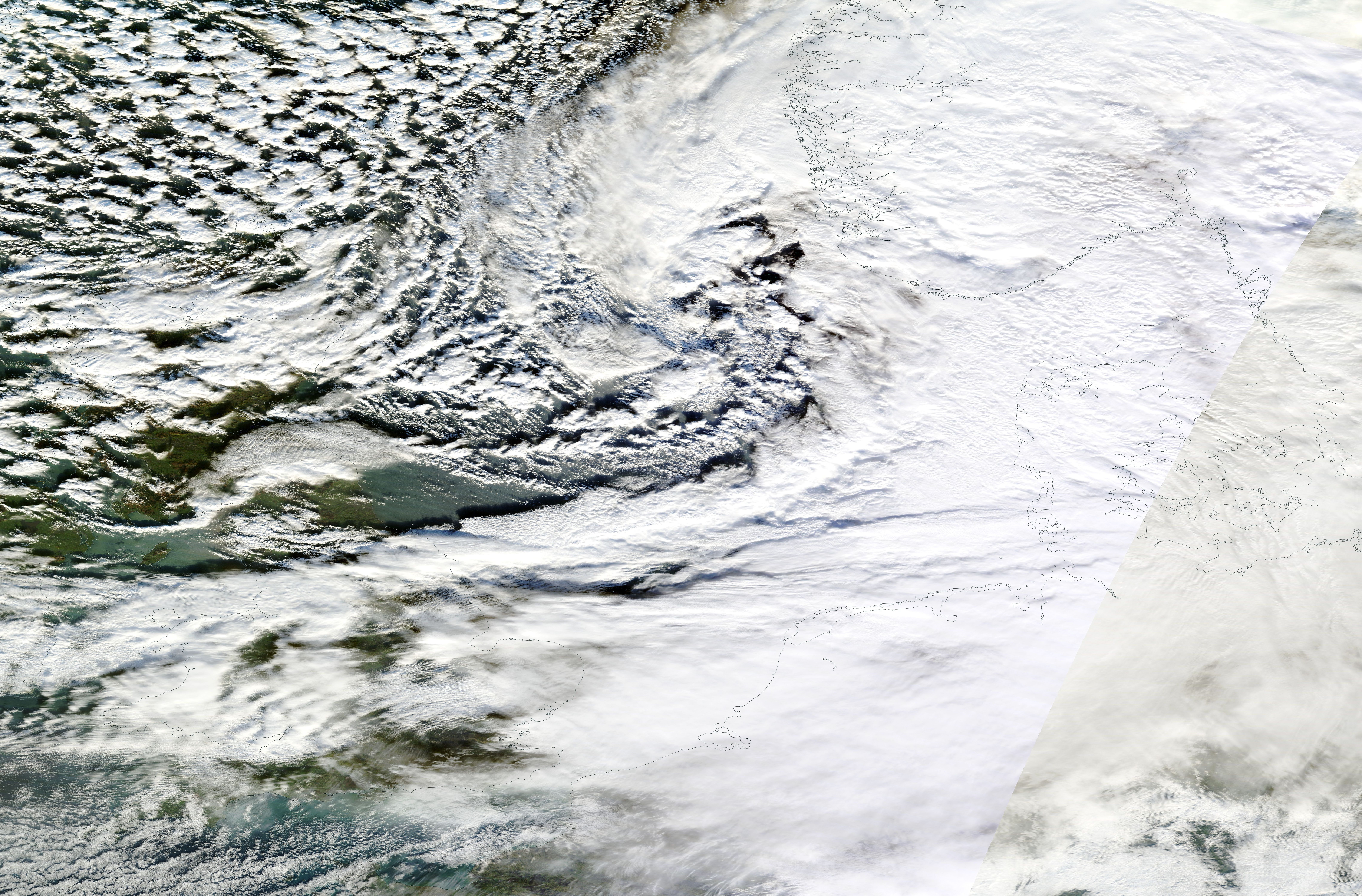 Cyclone Xaver (also known as Cyclone Bodil in Denmark and Cyclone Sven in Sweden) making landfall over Norway and Denmark on 5 December 2013.